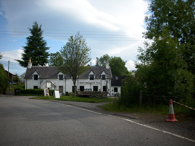 Kilchrenan Inn